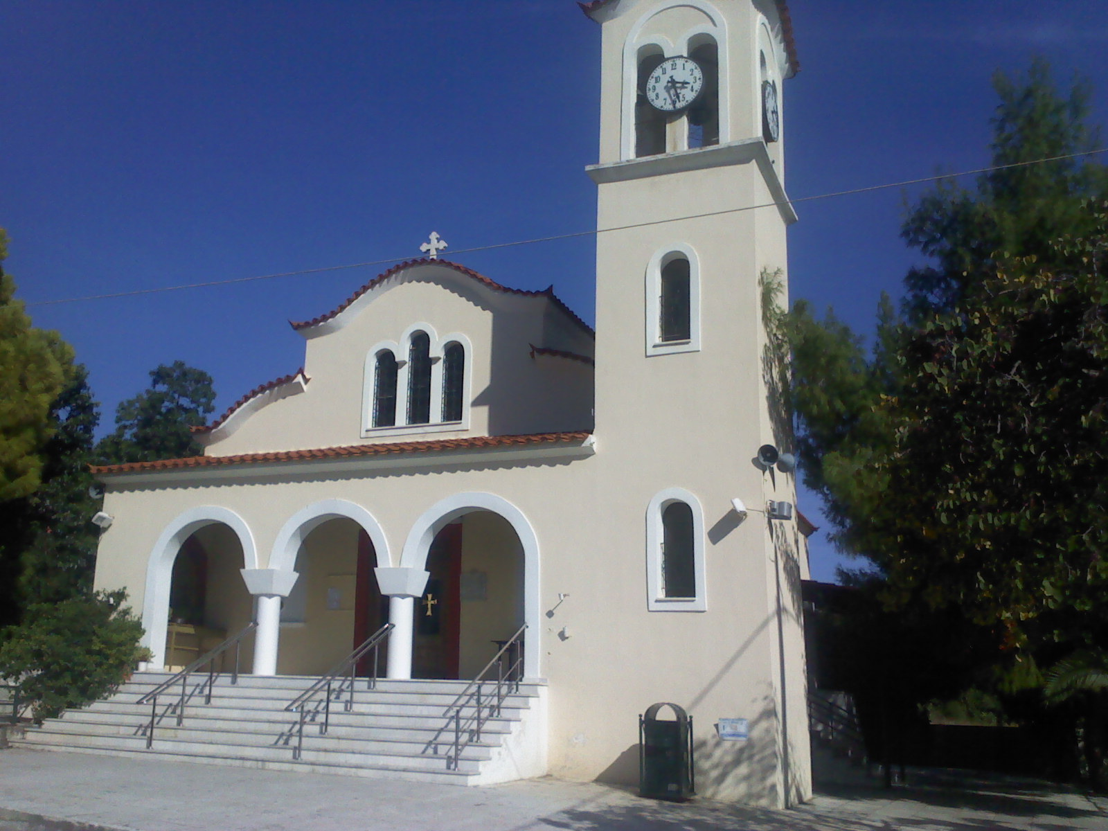 Koimisis Theotokou Porto Rafti